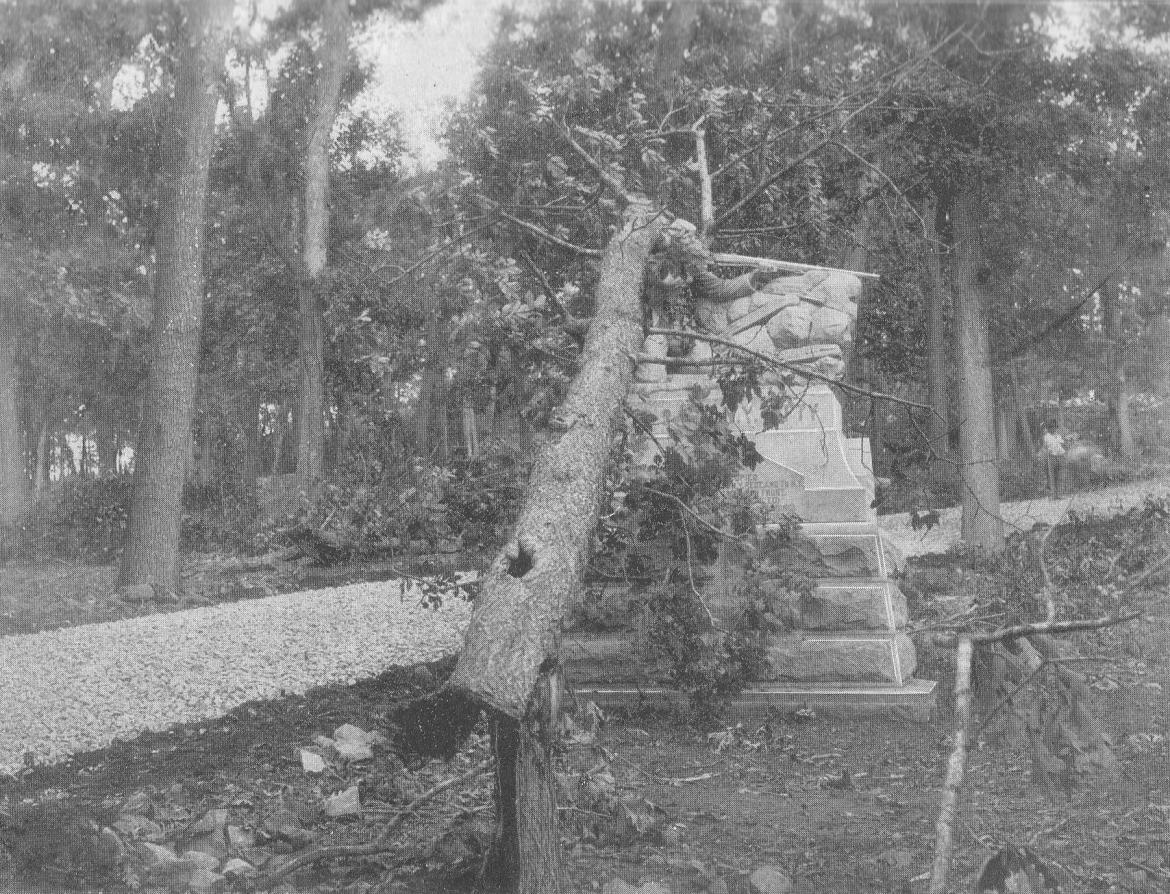 A monument to the 78th & 102nd New York Infantry Regiments on Culp's Hill at the Gettysburg Battlefield, struck and damaged by a fallen tree after a hurricane on September 30, 1896.